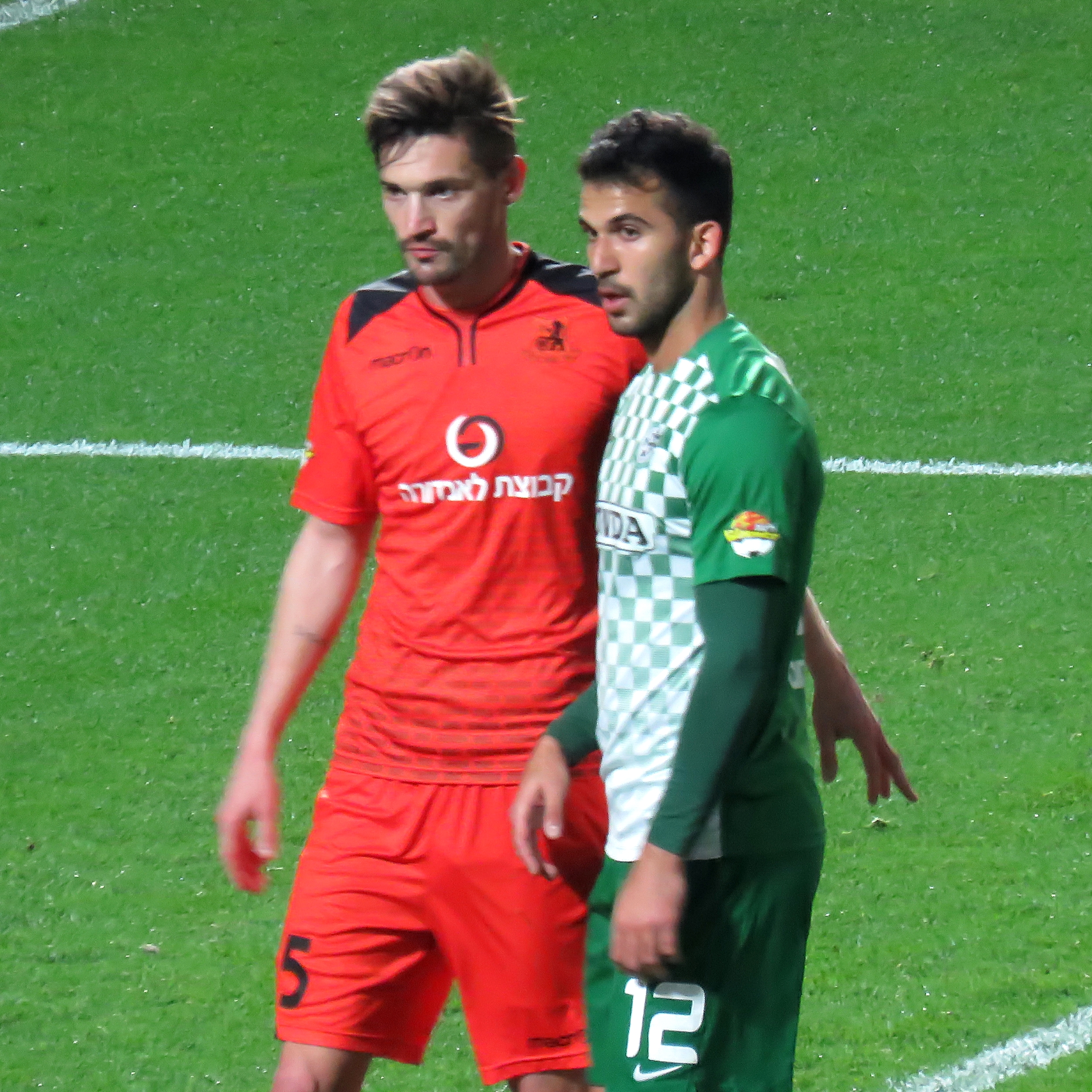 Bnei Yehuda Tel Aviv vs. Maccabi Haifa F.C., 9 Februar, 2016